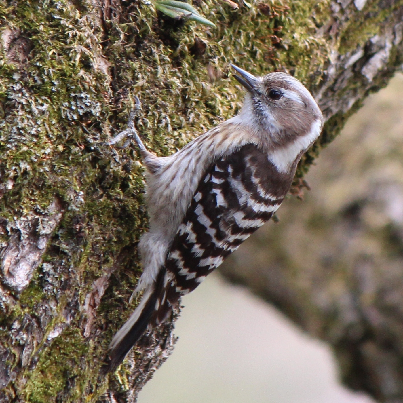 Dendrocopos kizuki(Japanese Pygmy Woodpecker), on tree in Japan.